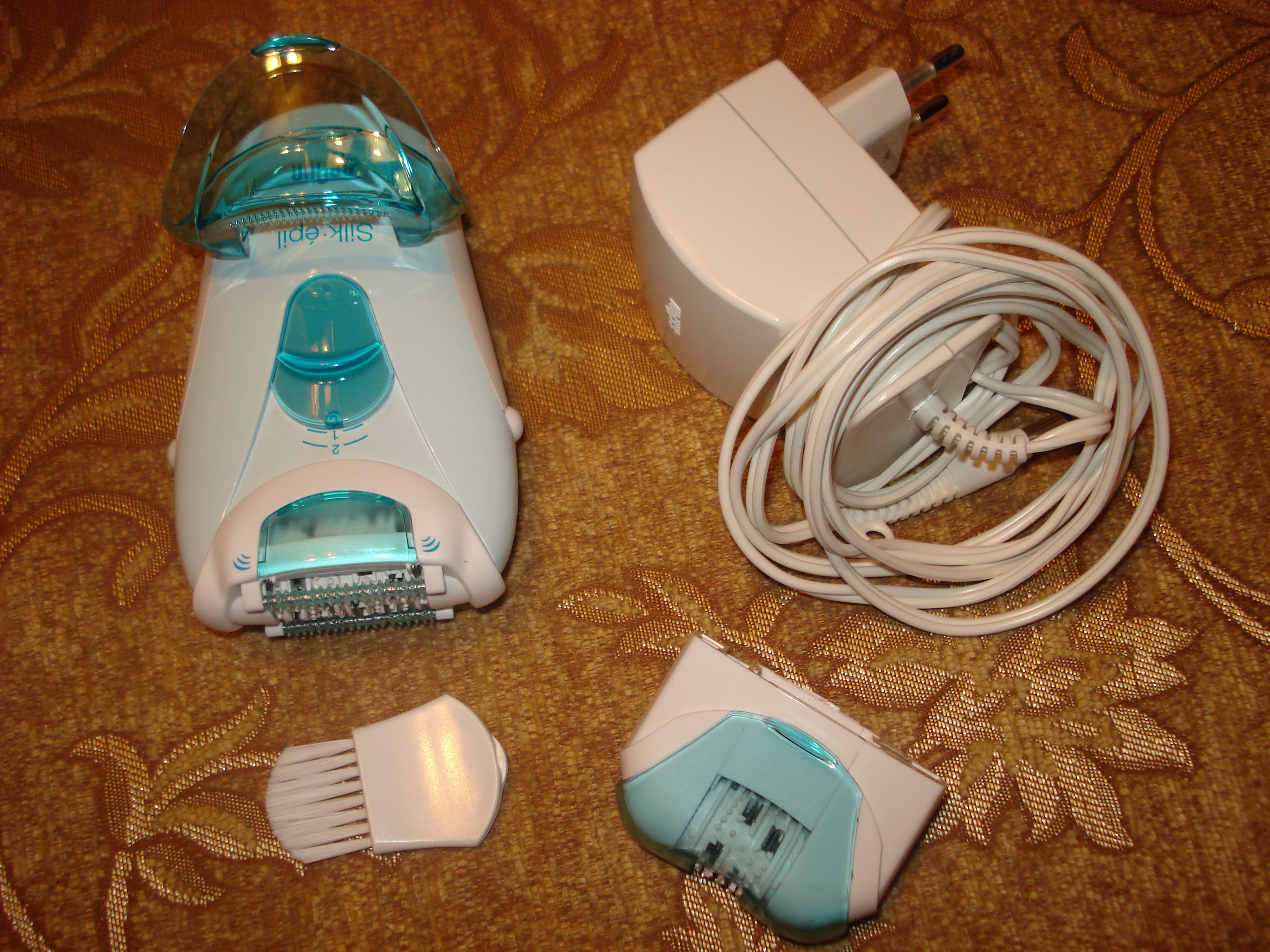 An epilator and its equipments for women bodies